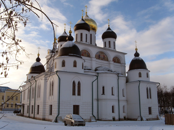 Dmitrov. Uspensky_Sobor_in_Kremlin (XVI-XIX century)